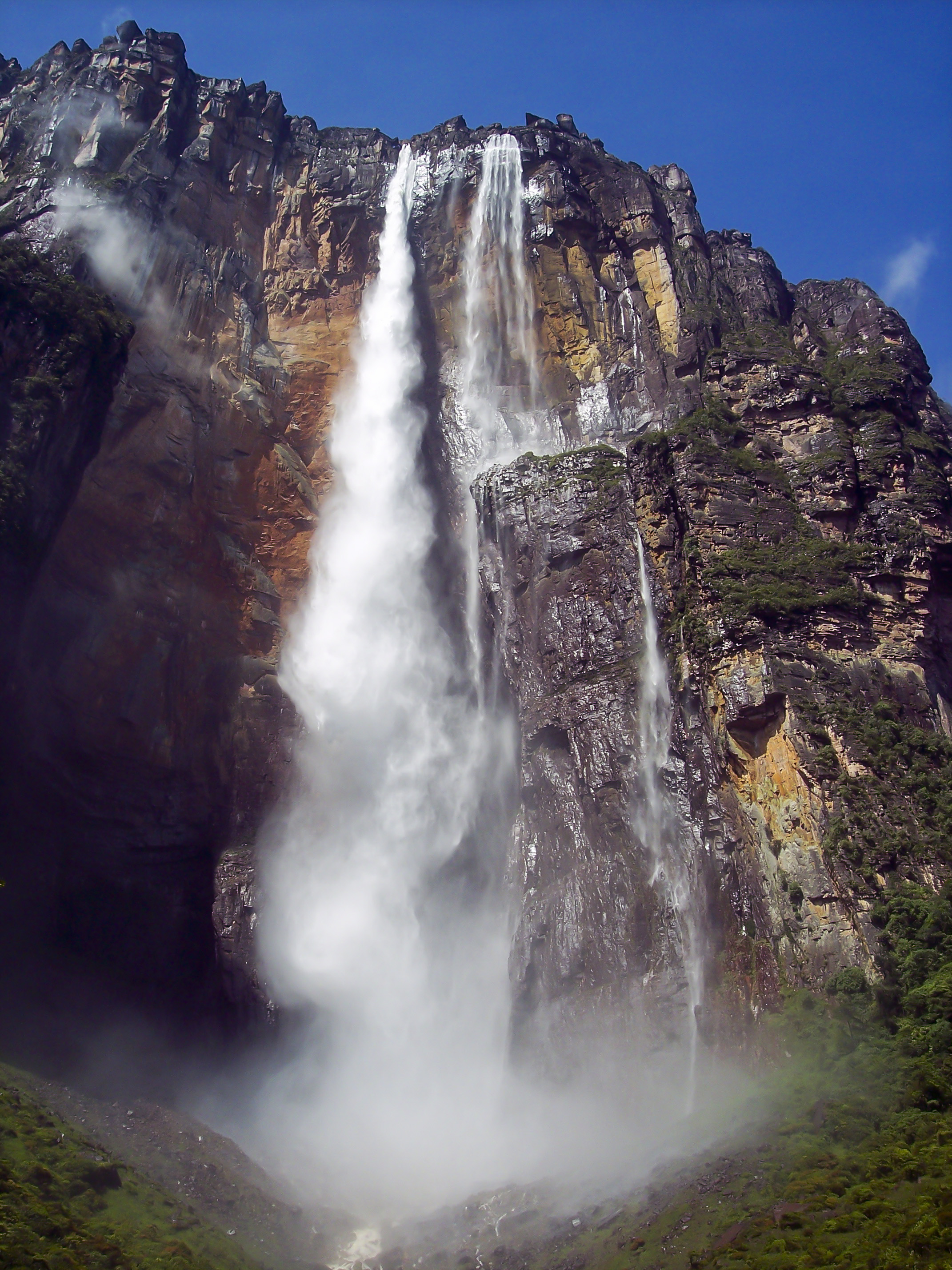 Salto Angel, Canaima, Venezuela